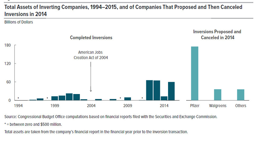 Graphic from a September 2017 report by the Congressional Budget Office on the total assets of US tax inversions (completed and aborted).